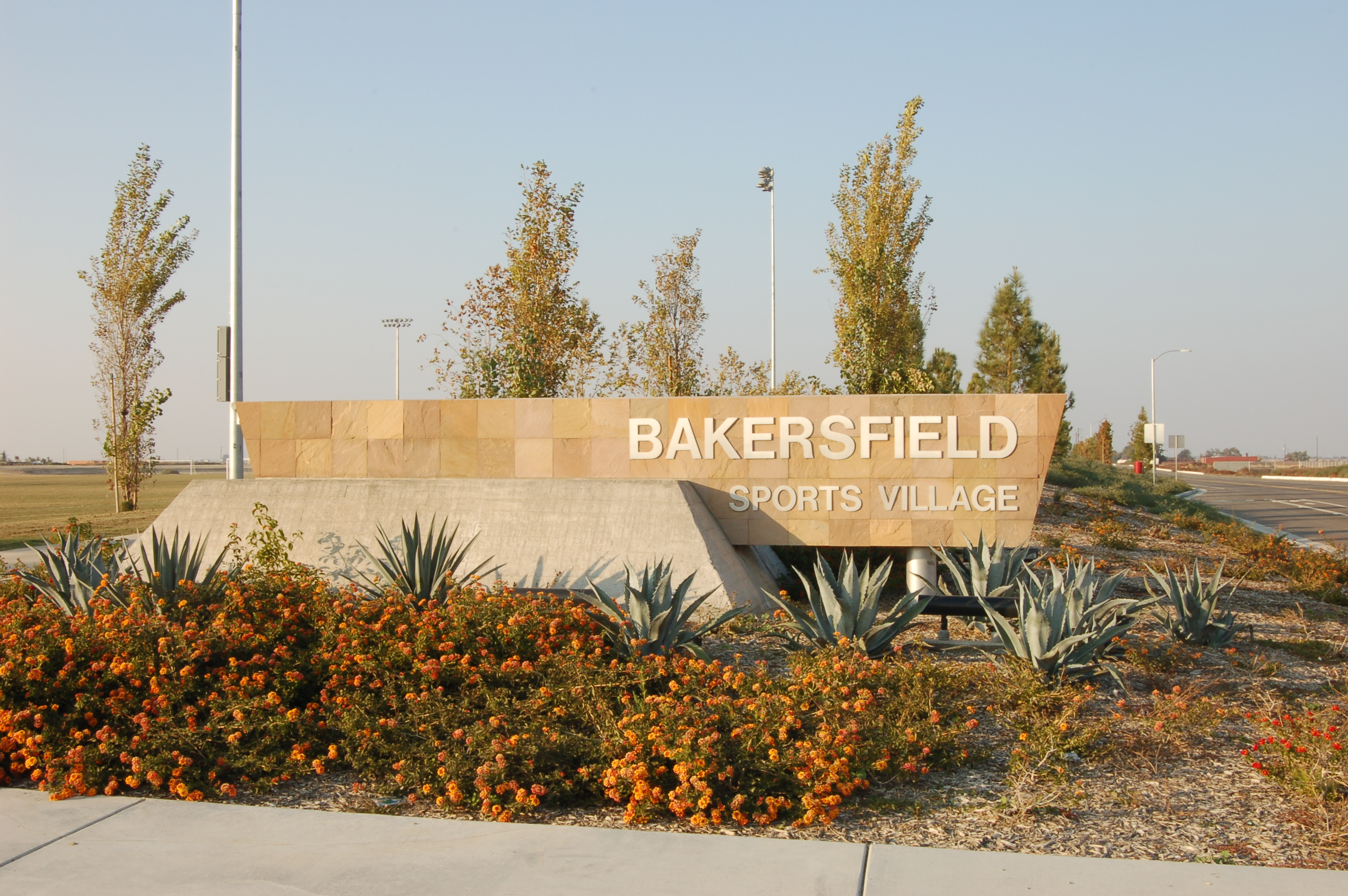 Entrance sign for the Bakersfield Sports Village from Ashe Road.